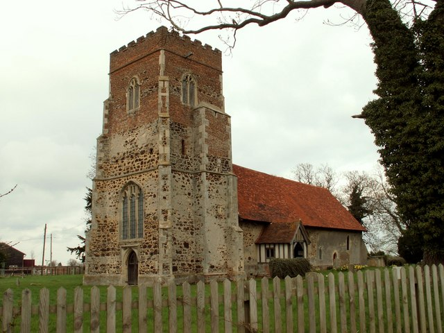 Parish church of St Mary the Virgin, Little Bromley, Essex, seen from the southwest